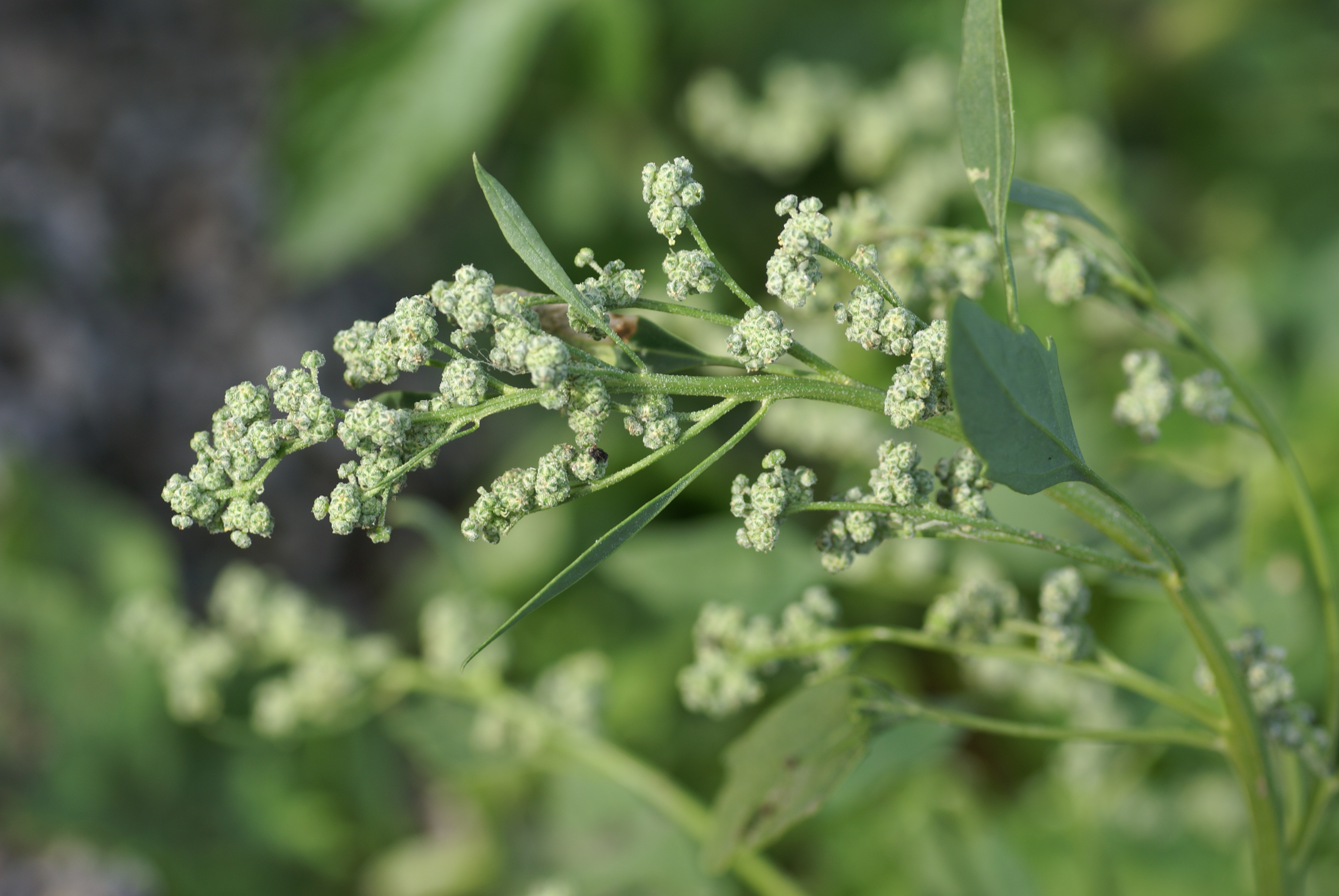 Plant species Chenopodium suecicum in Uppsala, Sweden